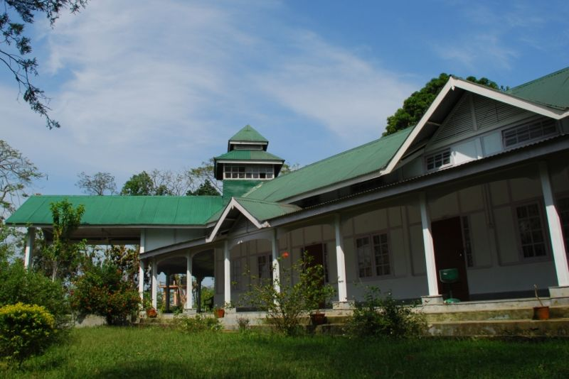 Bonoshree Tourist Lodge run by Assam state Govt. in Kaziranga National Park